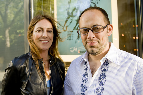 HURT LOCKER director Kathryn Bigelow and SIFF Artistic Director Carl Spence. Photo by Matt Daniels